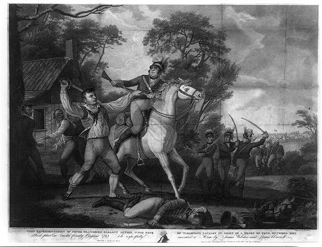 Engraving depicting Continental Army soldier Peter Francisco in a fight with men from the cavalry of Banastre Tarleton in Amelia (now Nottoway) County, Virginia, July 1781.